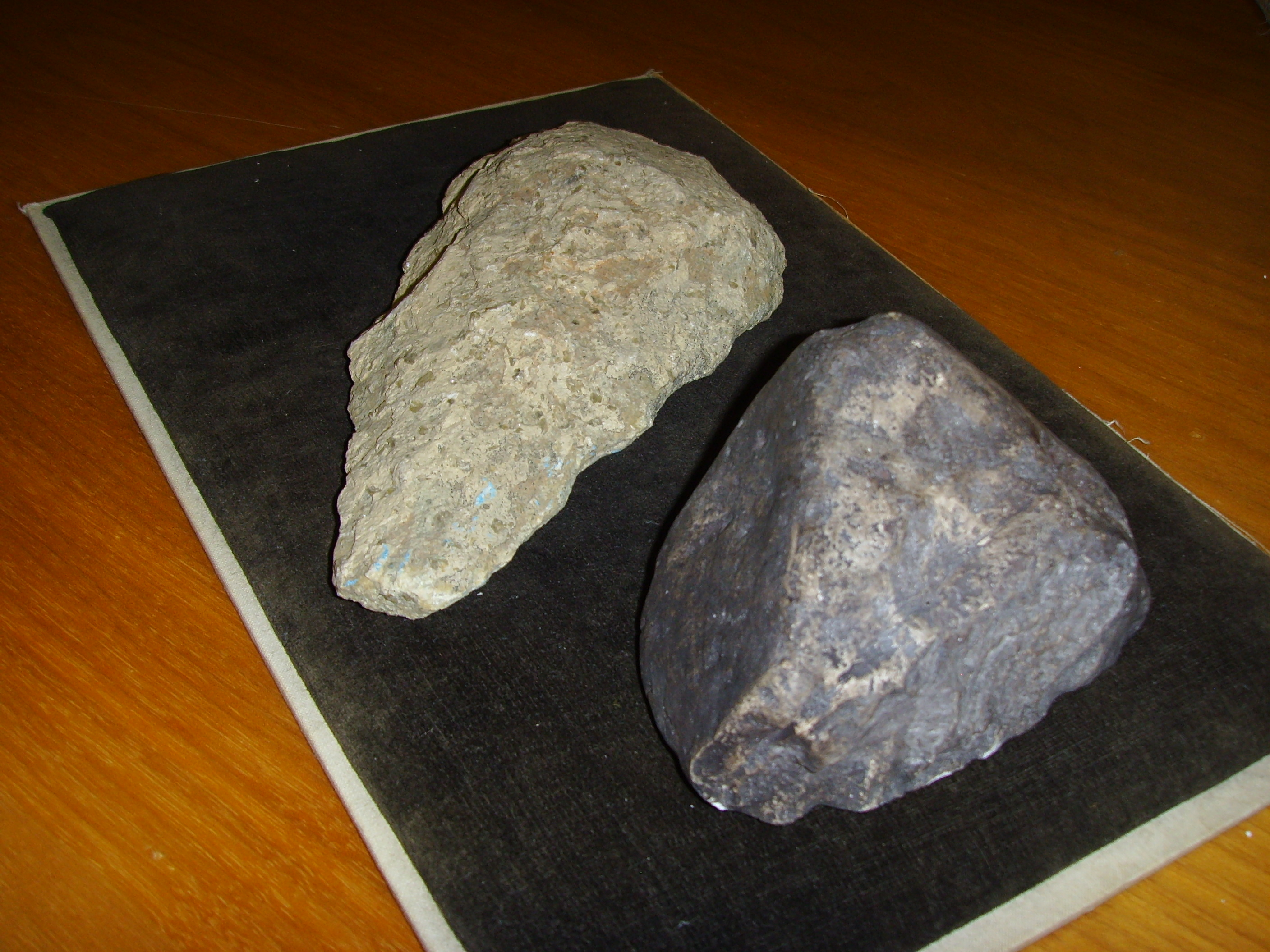 Stone tool (Oldowan style) from Dmanisi, Georgia (right, 1,8 mya, replica), to be compared with the more "modern" Acheulean style (left)